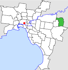 Location of the City of Croydon within Melbourne.